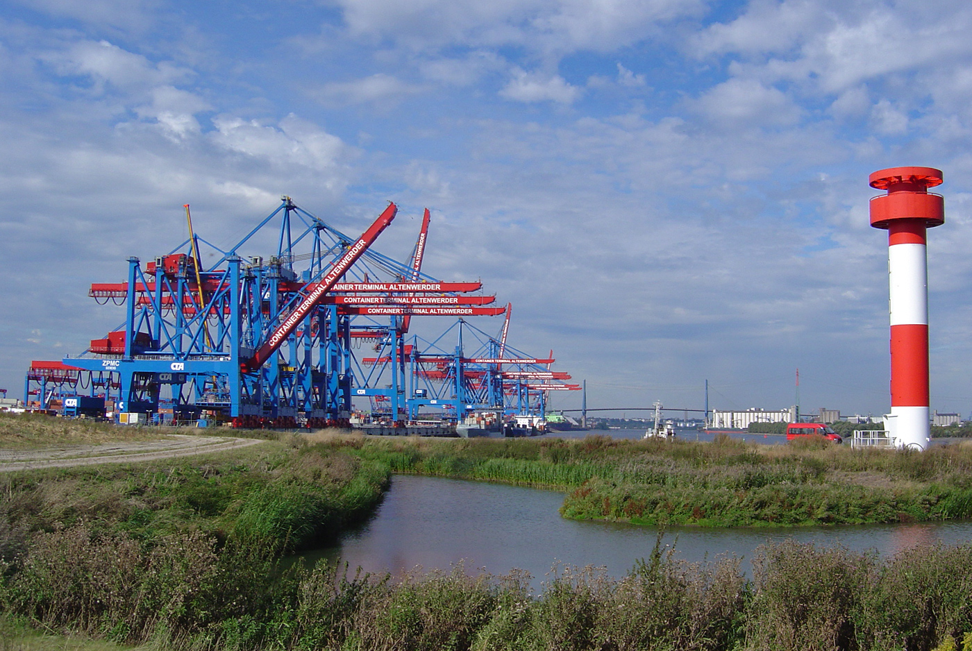 Container terminal Altenwerder in the Hamburg harbour area. One of the lighthouses to the right, the bridge crossing the Köhlbrand in the background, one of the landmarks of Hamburg.